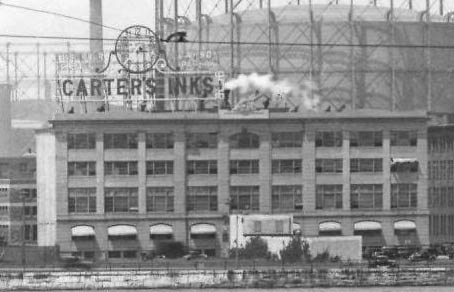 Detail of the Carter's Inks building.